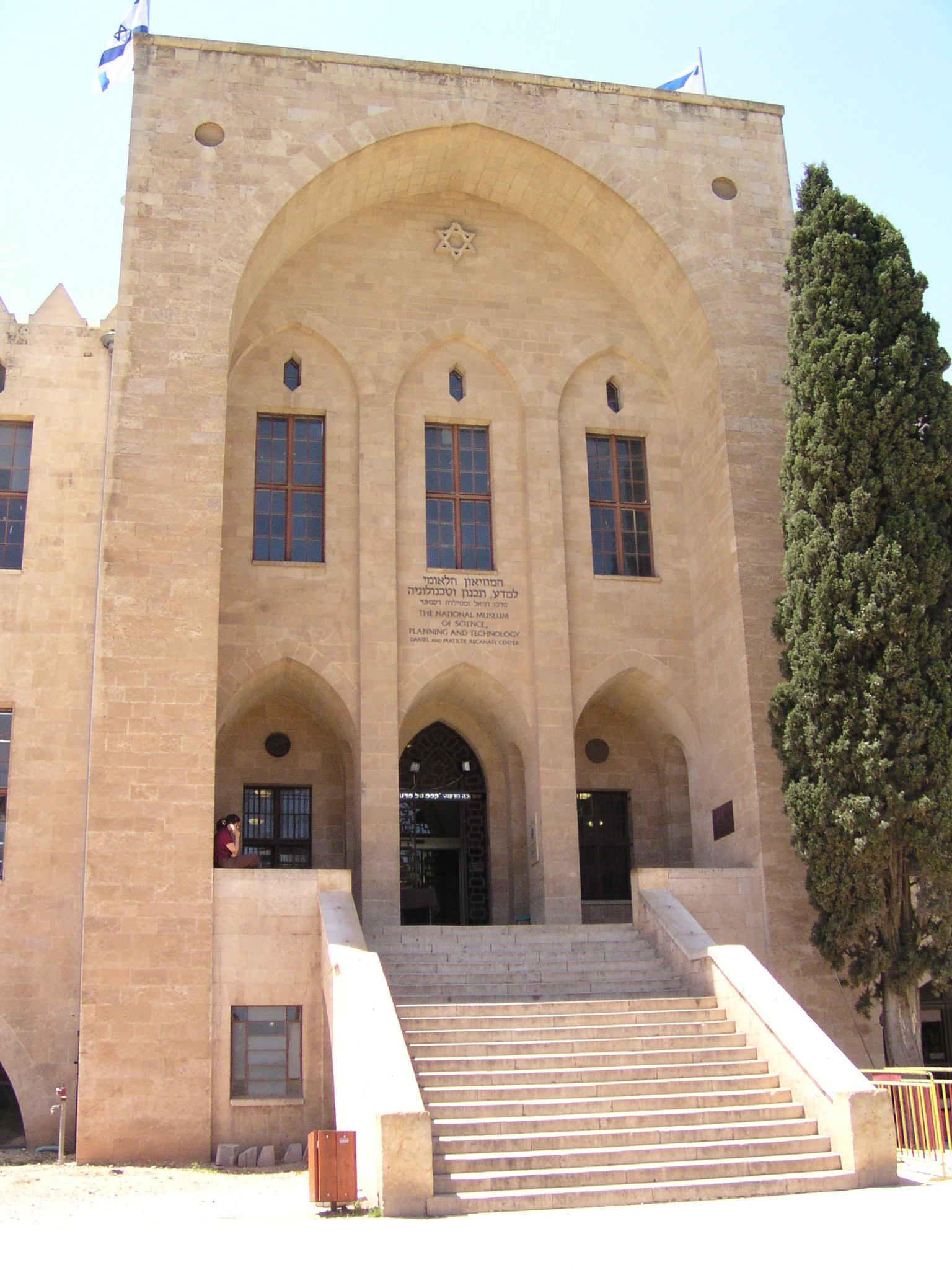 The National Museum of Science, Technology and Space (Daniel and Matilda Recanati Center) in Haifa, Israel. Situated in the historical building of the Technion institute. Picture shows the main entrance to the building.